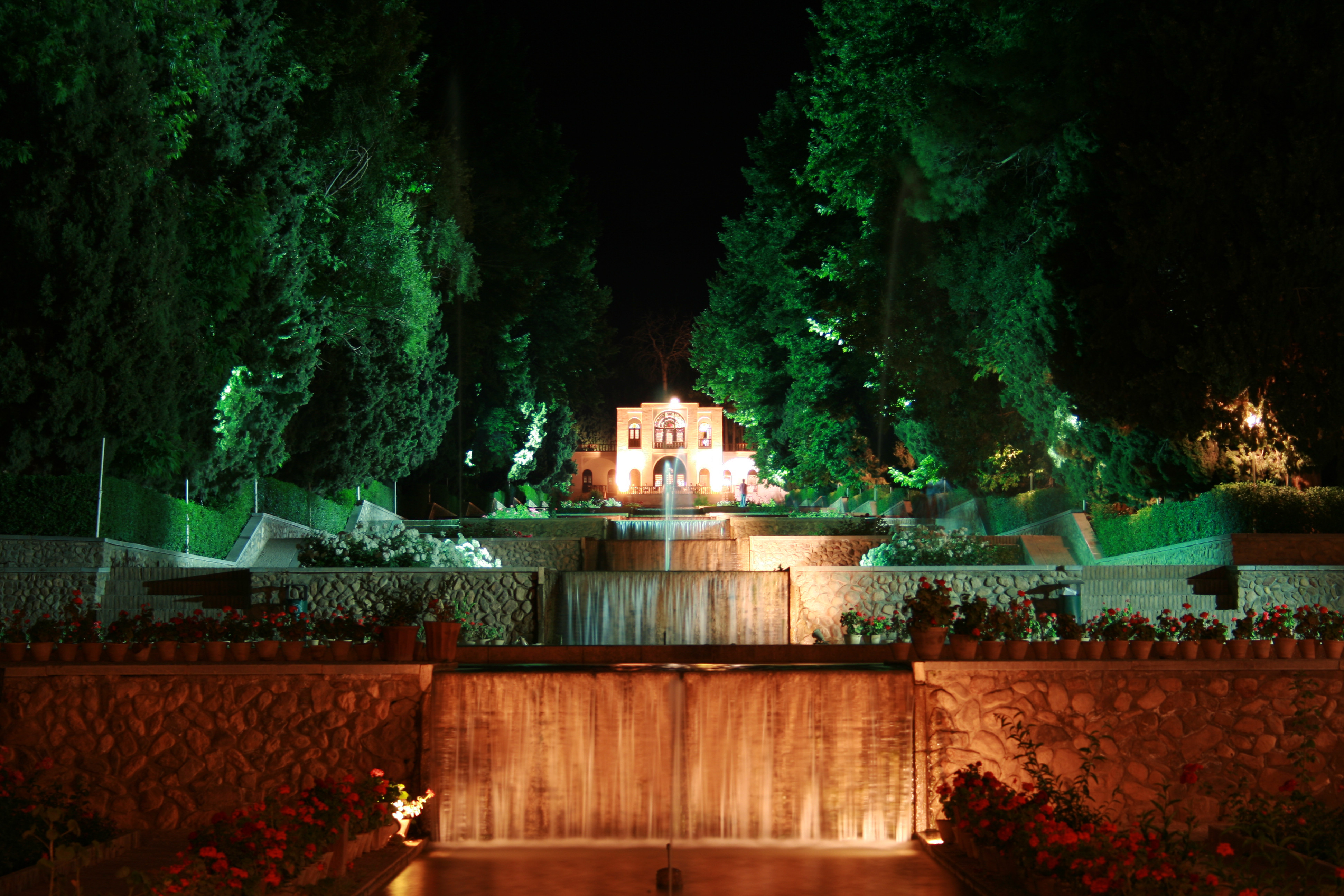 Shazdeh Garden